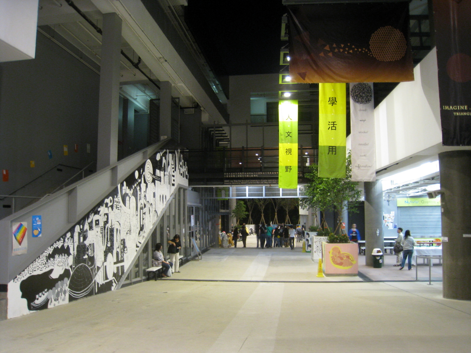 HKICC Lee Shau Kee School of Creativity 香港兆基創意書院